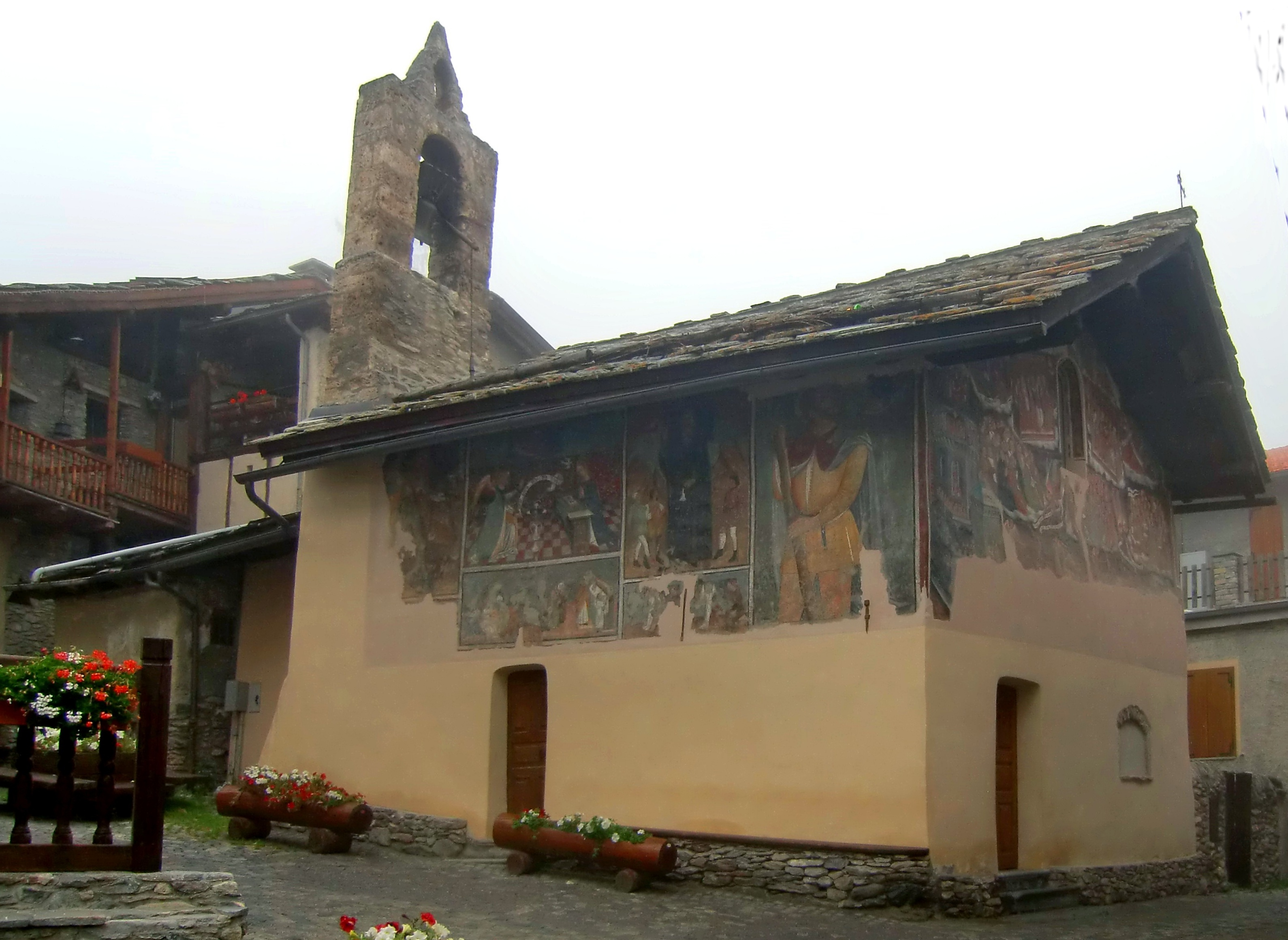 Sauze d'Oulx (TO), village of Jouvencieaux, Cappella di Sant'Antonio abate, XV century